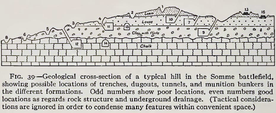 Cross-section diagram of Somme area